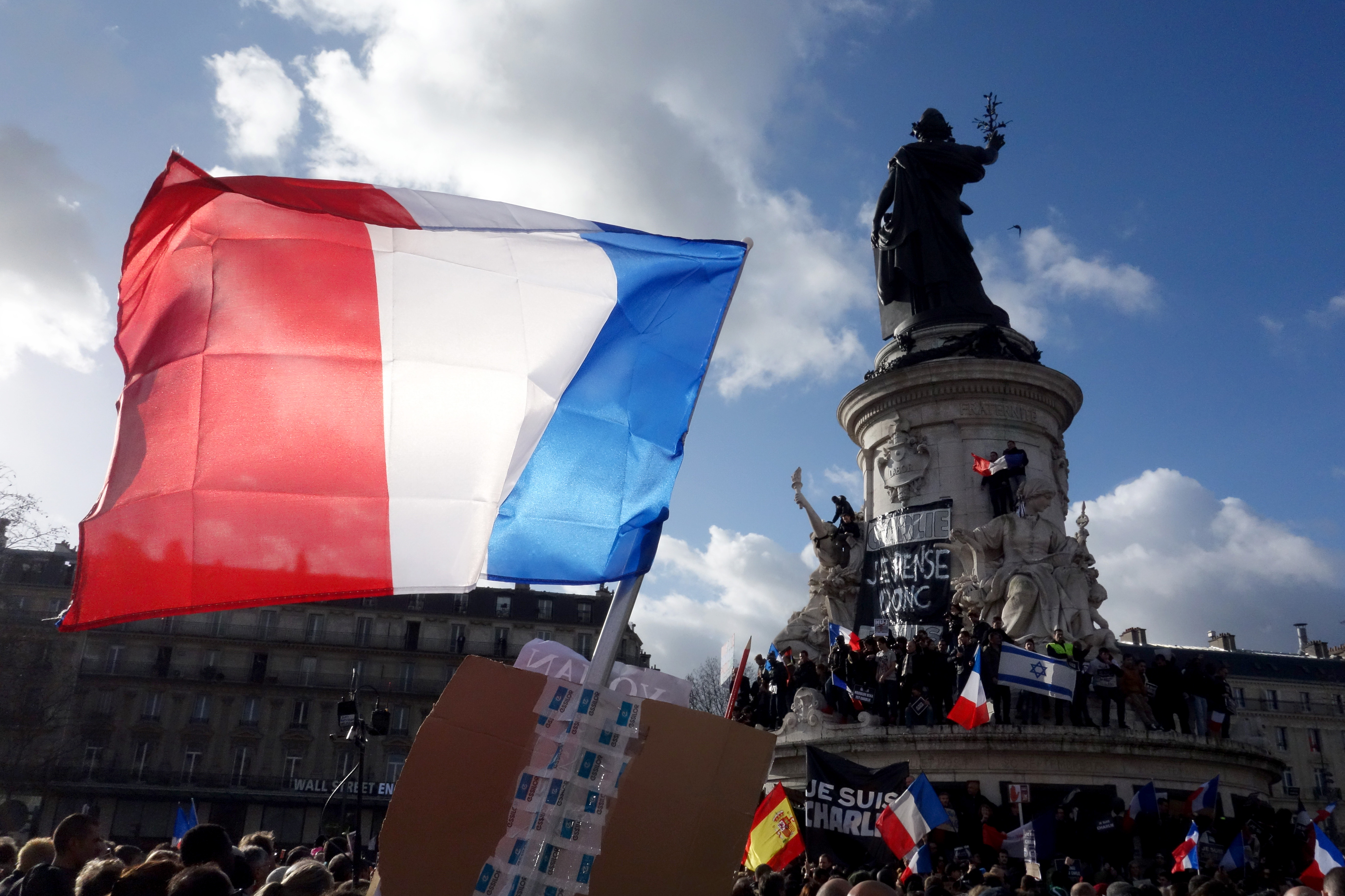 Paris rally in support of the victims of the 2015 Charlie Hebdo shooting, 11 January 2015. Place de la Republique.